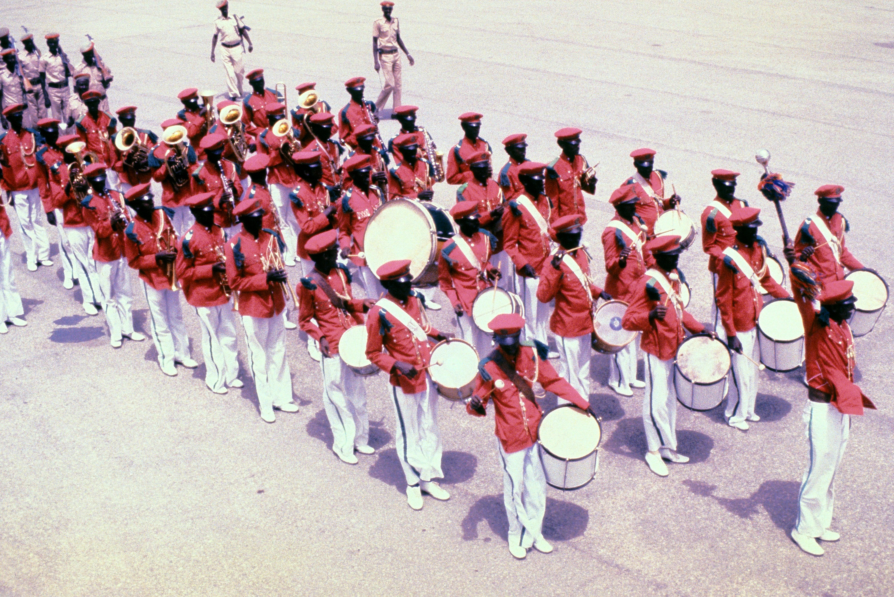 A Somali armed forces band passes in review during Exercise EASTERN WIND '83 ceremony. EASTERN WIND is the the amphibious landing phase of Exercise Bright Star '83.